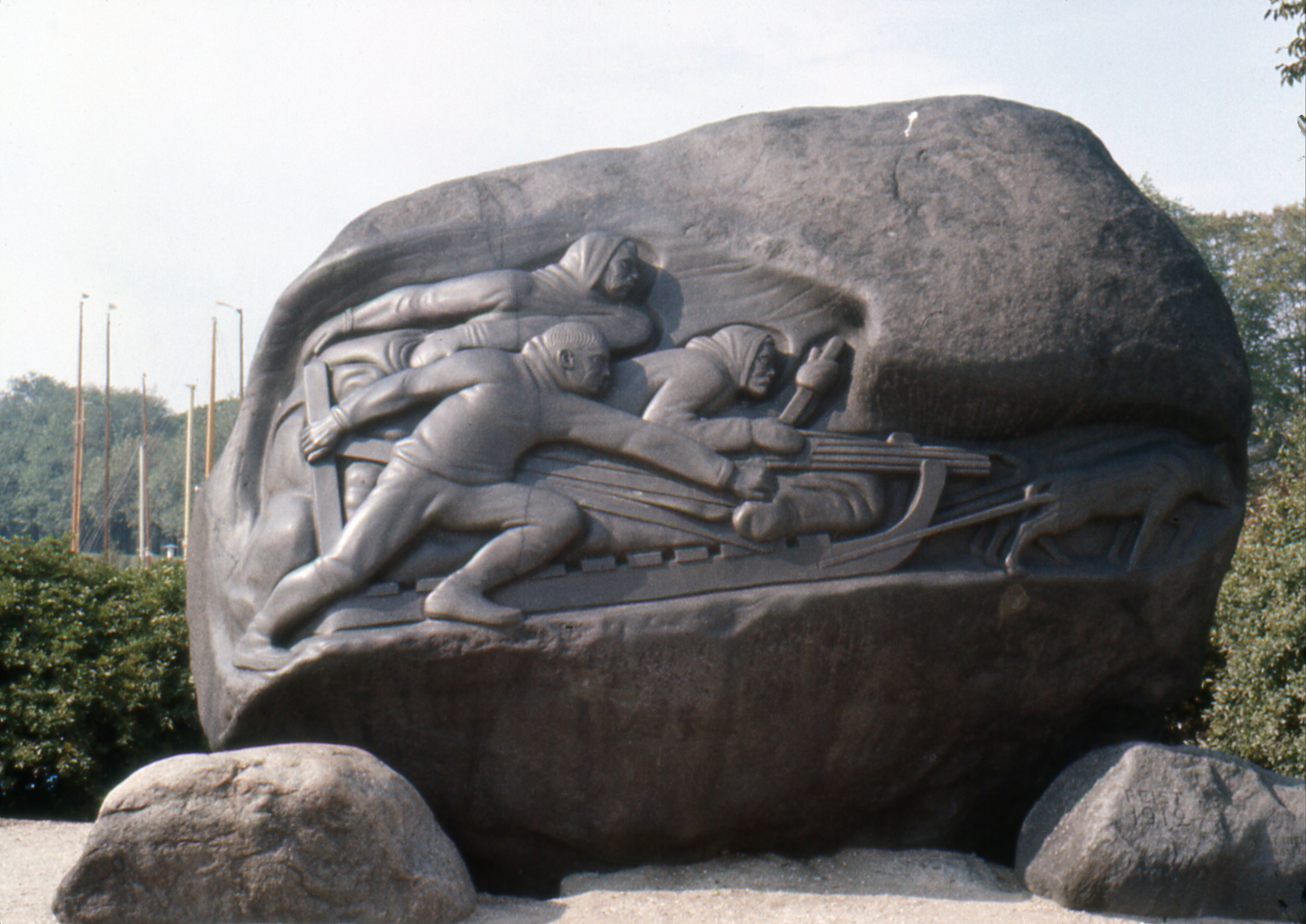 The Mylius-Erichsen Memorial at Langelinie in Copenhagen, Denmark. Created by Kai Nielsen (died 1924) and installed in 1912.